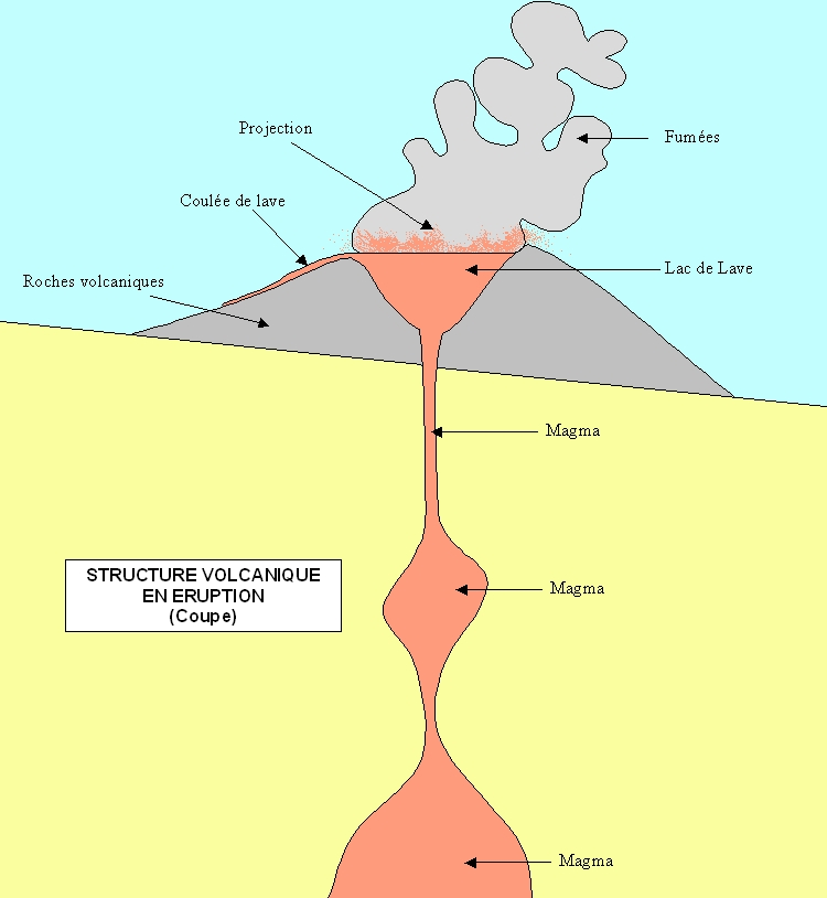 Structure diagram of an erupting volcano with legends in French.